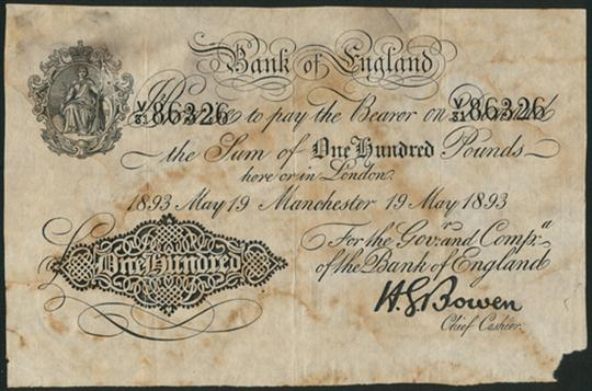 Bank of England, Horace George Bowen (1893-1902), a contemporary copy of a £100, Manchester, 19 May 1893, serial number V/31 86326, black and white, ornate crowned vignette of Britannia top left, value in black tablet low left, printed signature of H.G.Bowen low right (EPM B unlisted denomination).